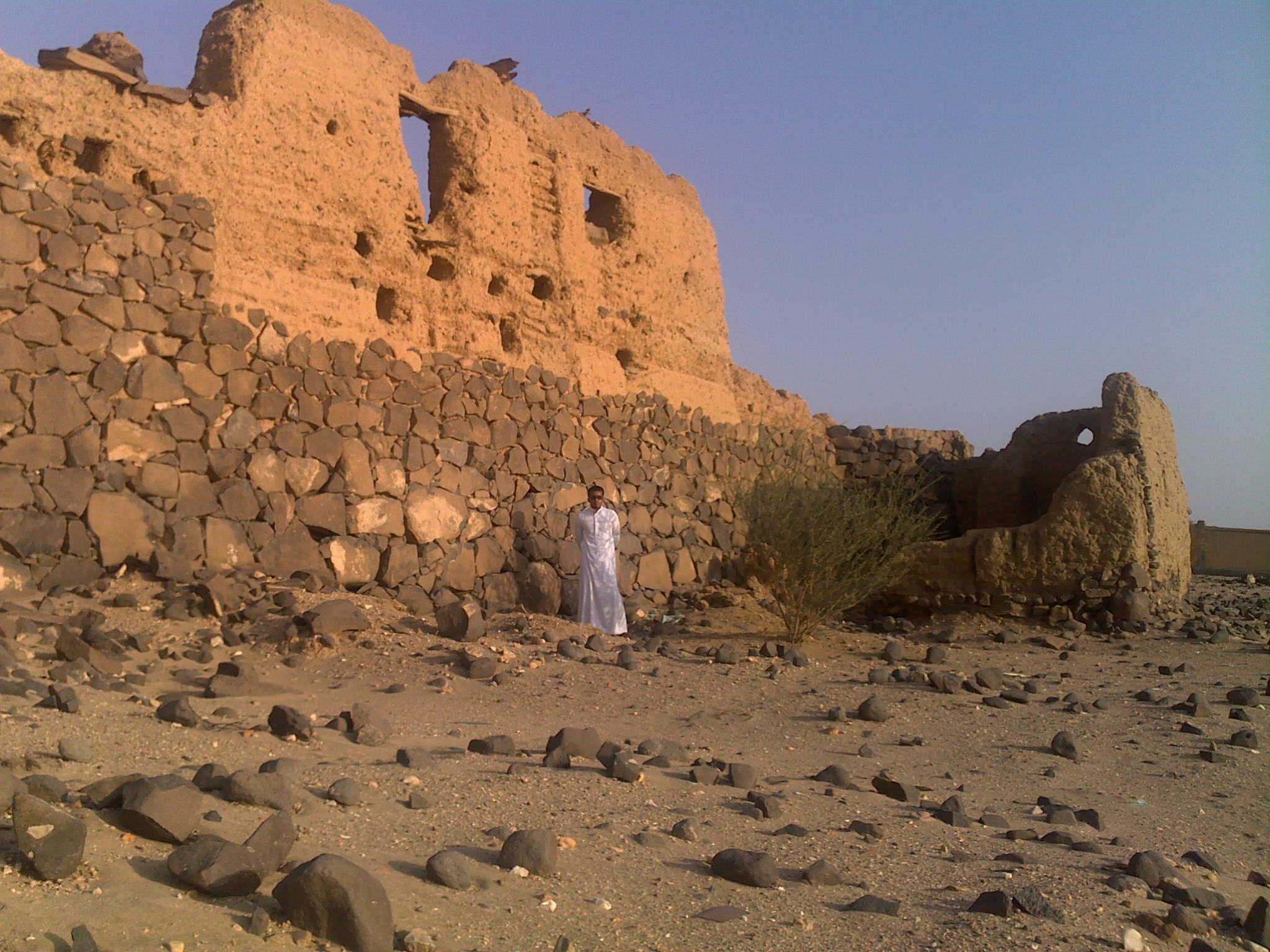 Stone ruins in Saudi Arabia with a guy standing in front of them